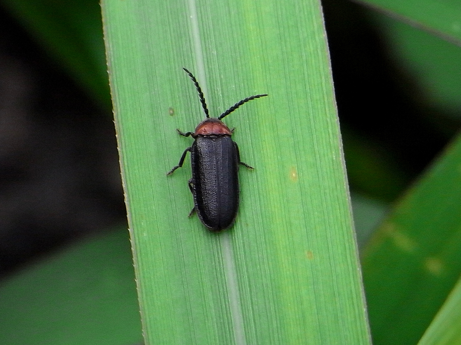 Cyphonocerus ruficollis